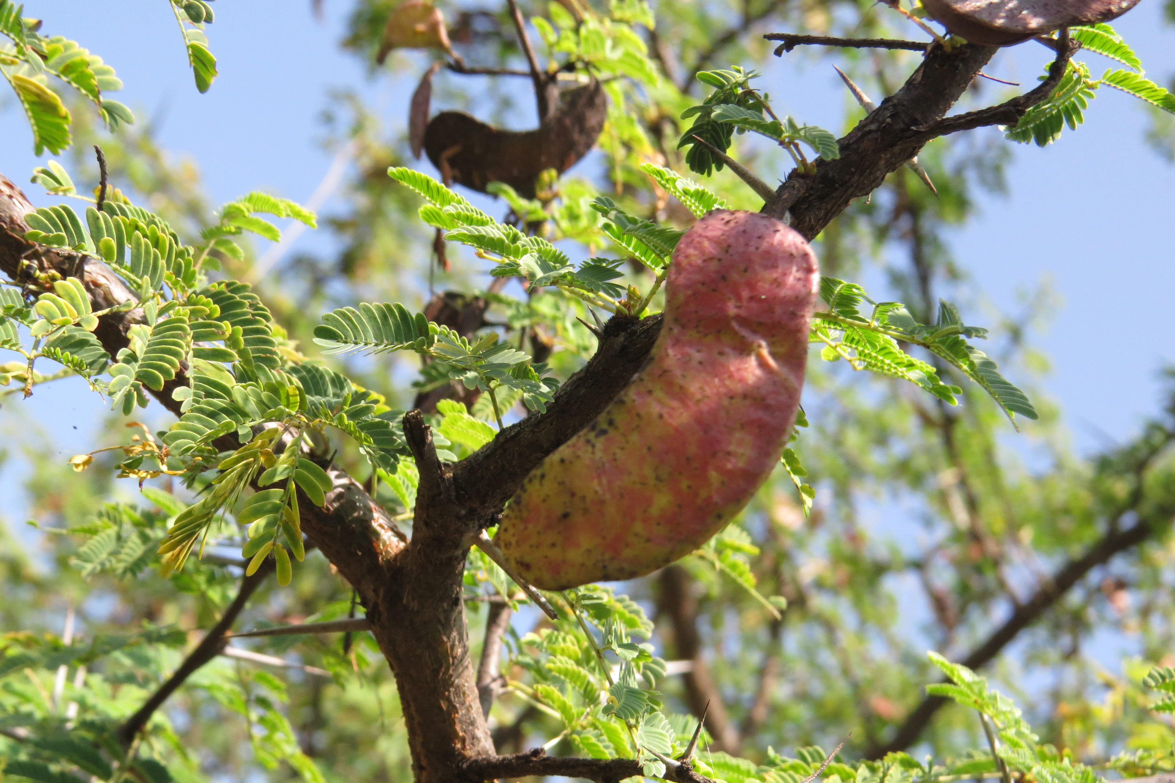 Photos from Theni, Cumbam Valley, Tamilnadu